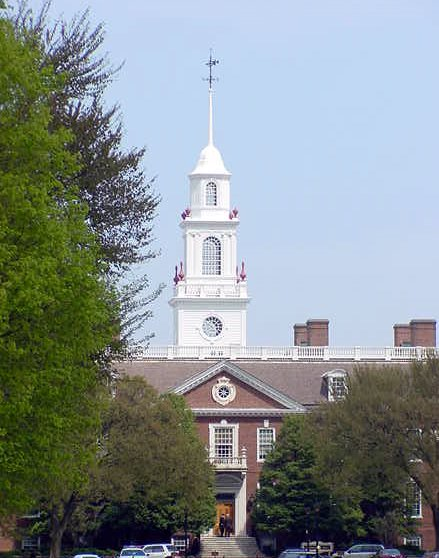 State Capitol of Delaware, by Luiz F Castro